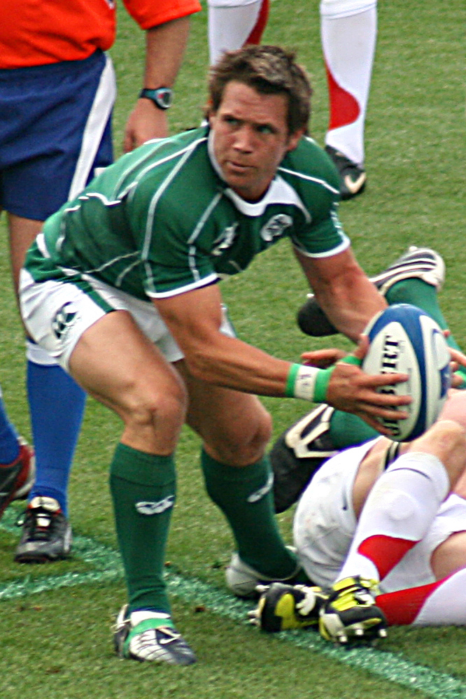 Isaac Boss passing the ball during England Saxon - Ireland Wolfhounds, Churchill Cup 2009